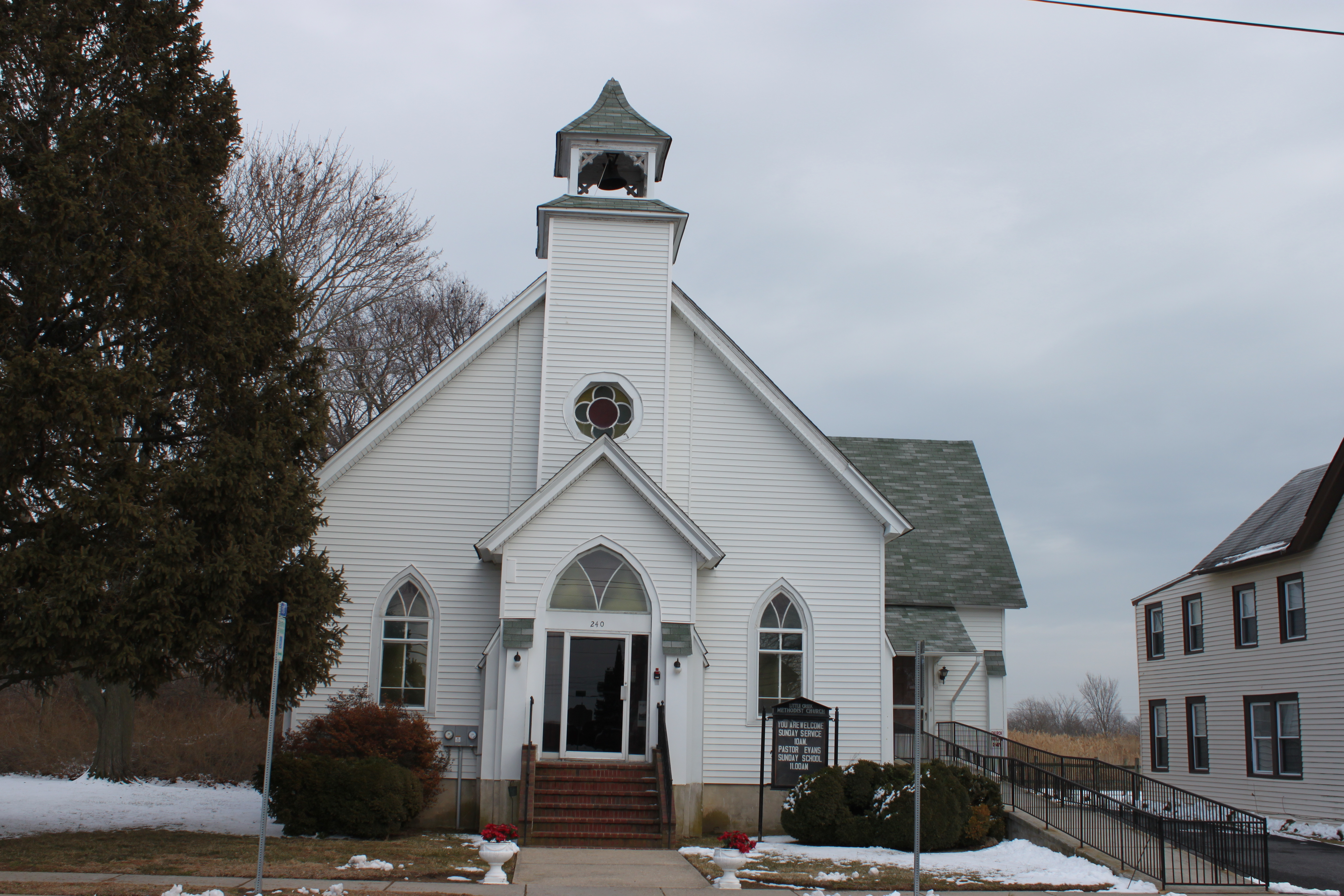 Little Creek Methodist Church, Little Creek, Delaware, National Register of Historic Places listings in Kent County, Delaware